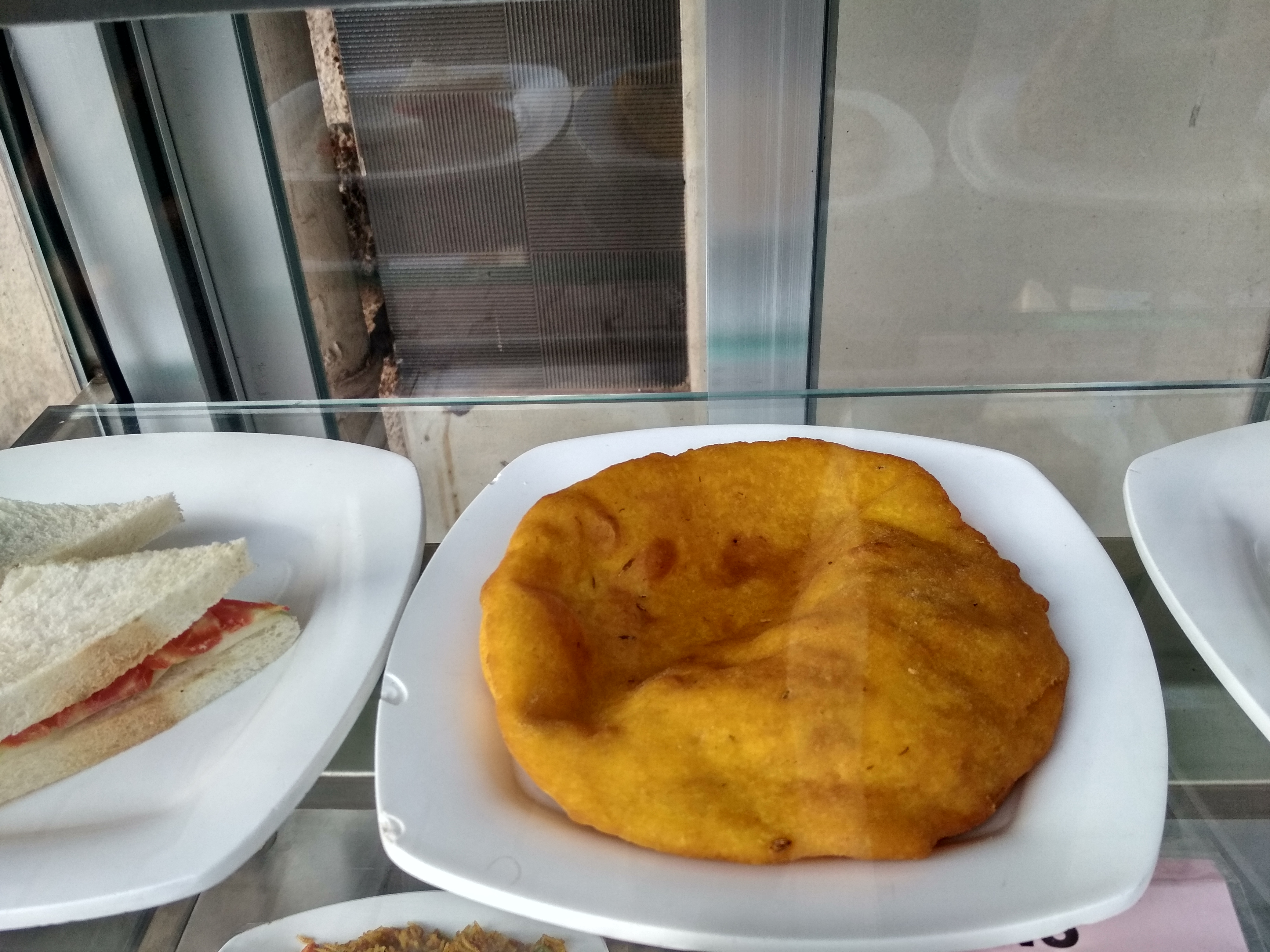 Buns, a breakfast delicacy of Mangalore and Coastal Karnataka at Goa